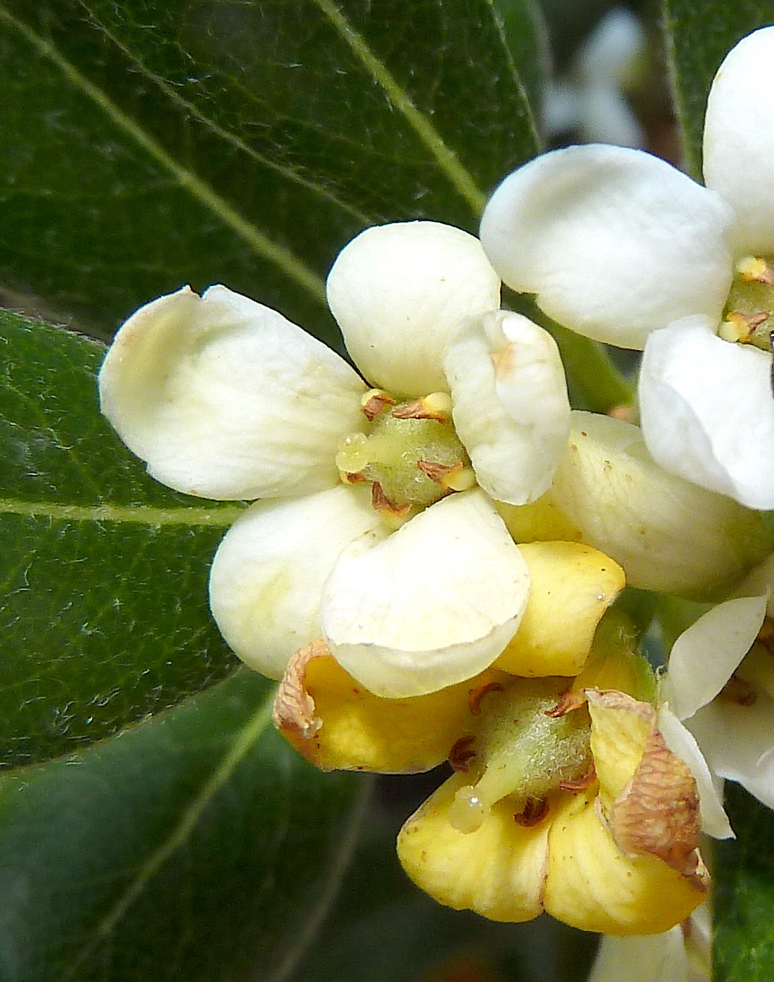 Pittosporum tobira : flowers, close-up - 'La Huerta Park', Albatera (Alicante, Spain).